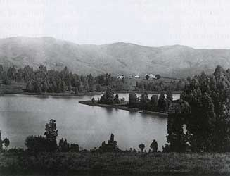 Early photo of Kodaikanal lake, Showing grassland and 3 buildings on present site of Carleton Hotel and Kodai School